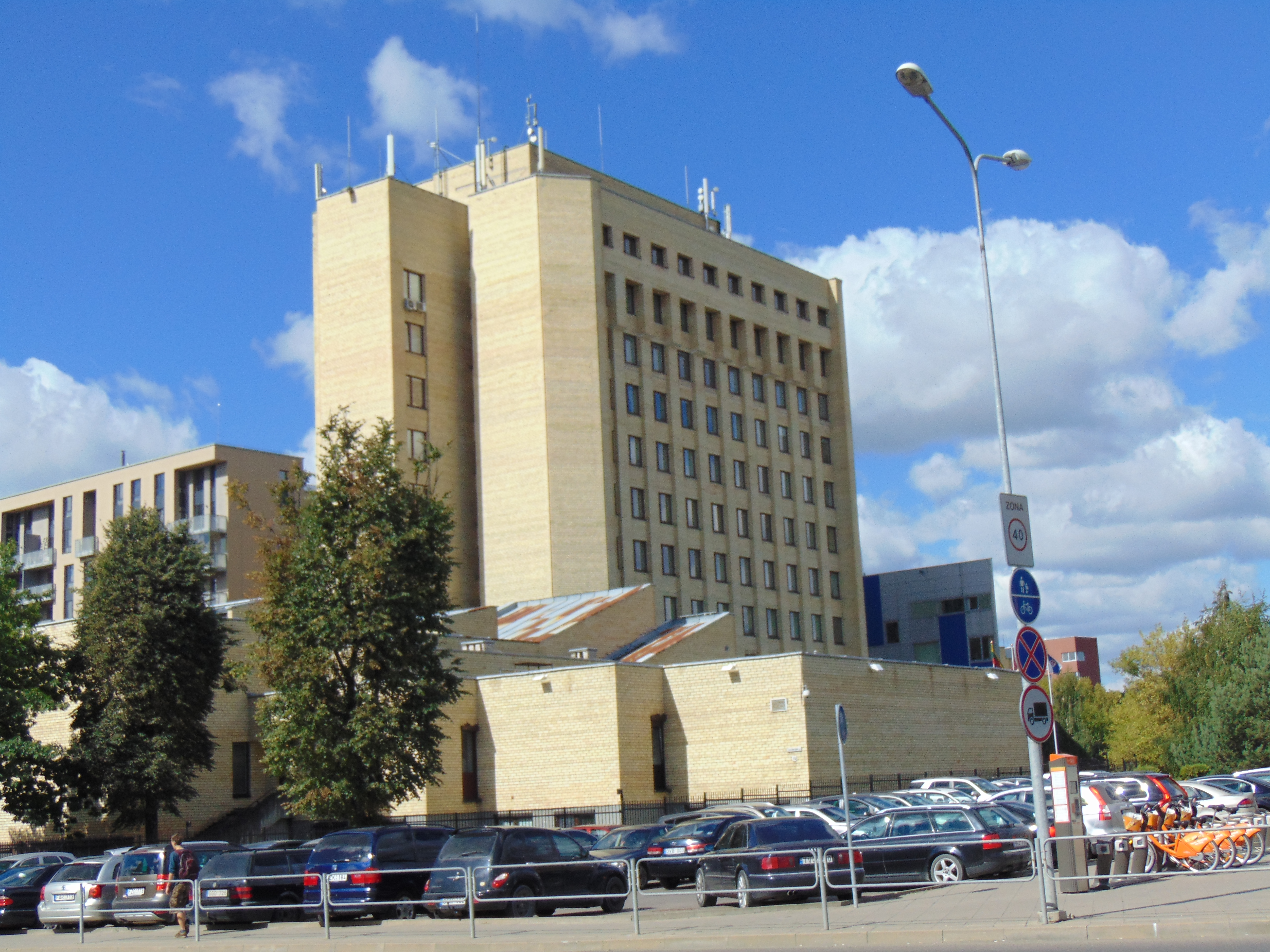 Police Department of Lithuania